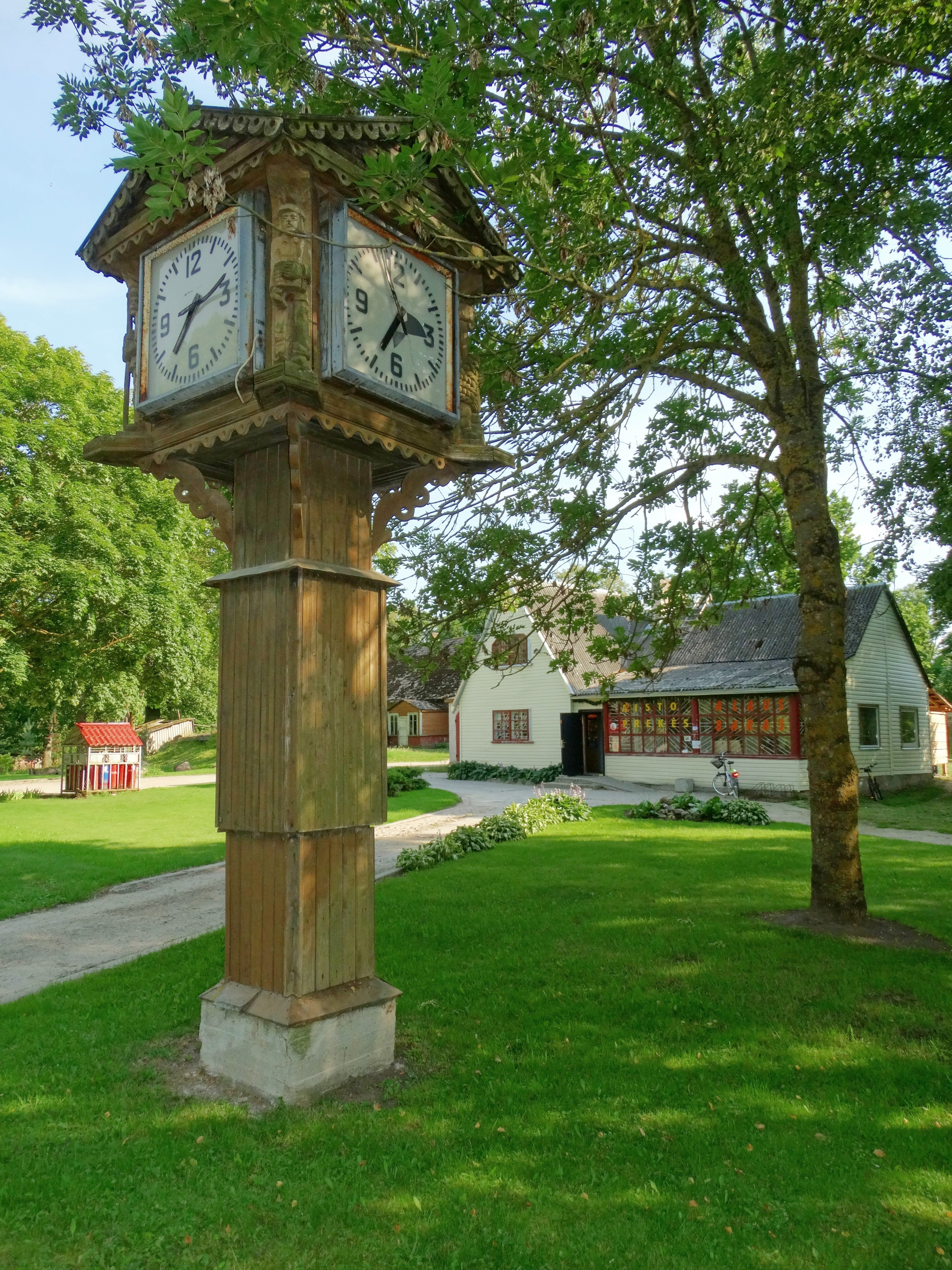 Stačiūnai, Pakruojis District, Lithuania